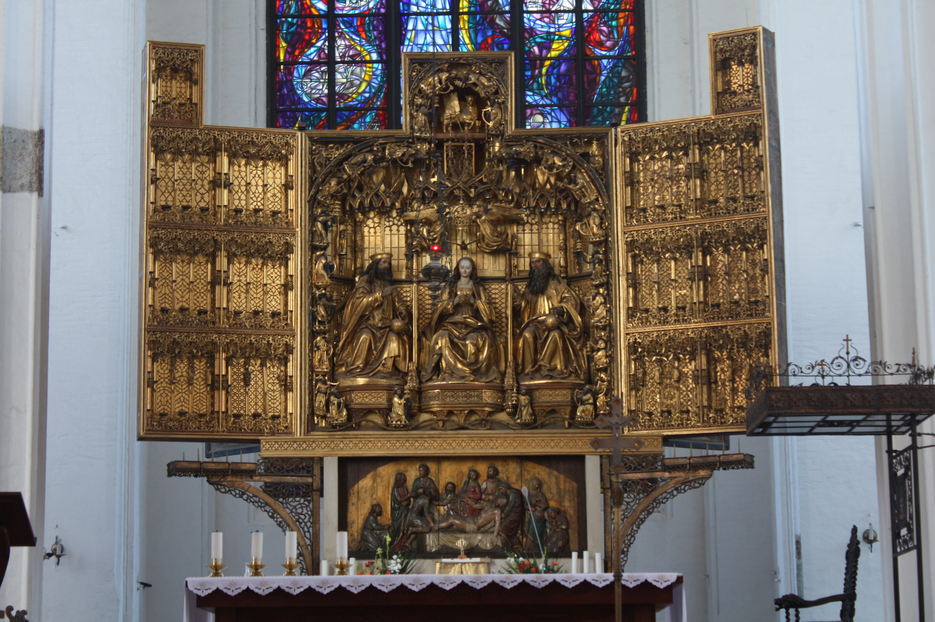 Gdańsk St. Mary's Church. Main Altar